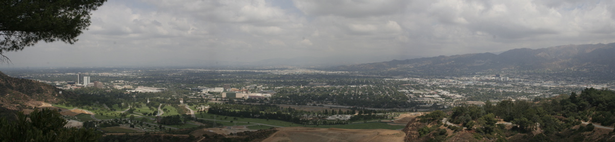 Burbank, California as seen from Griffith Park.